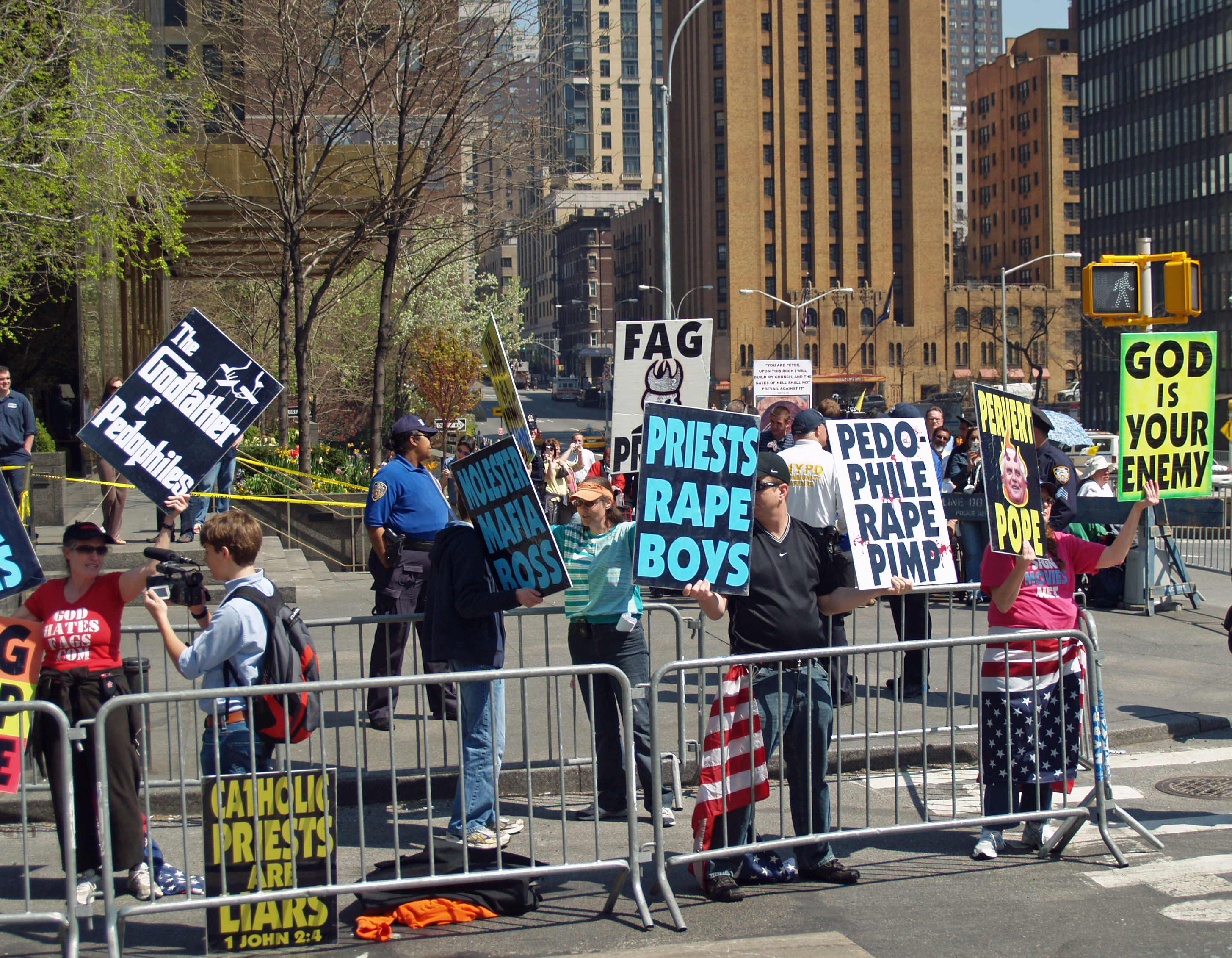 Westboro Baptist Church at the United Nations headquarters in New York City, on the day of Pope Benedict's address to the UN General Assembly.